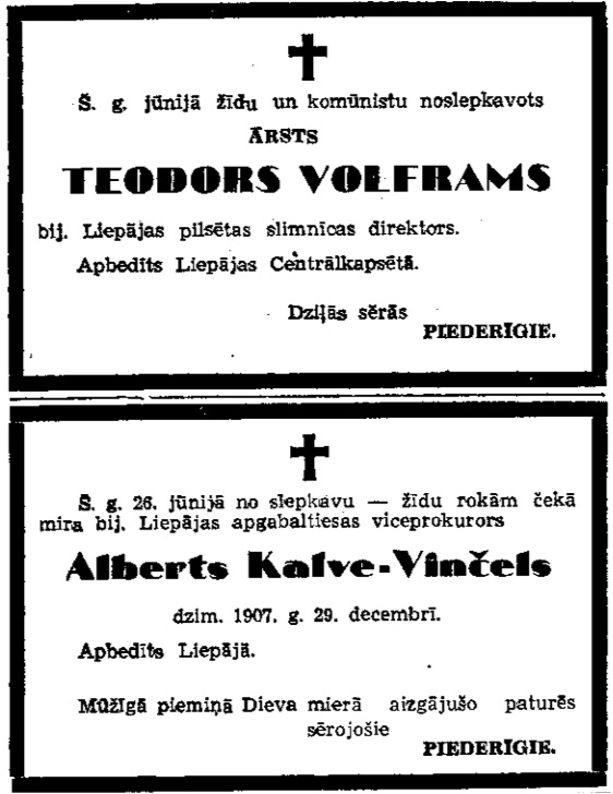 These death notices (in Latvian) refer to persons murdered by the NKVD during the first Soviet occupation of Latvia during 1940 to 1941. Consistent with Nazi propaganda aims, both notices link the Jews and the Bolsheviks together as responsible for the deaths. There are many other examples in the source, Tēvija, a Latvian newspaper published under the control of the German occupying authorities.